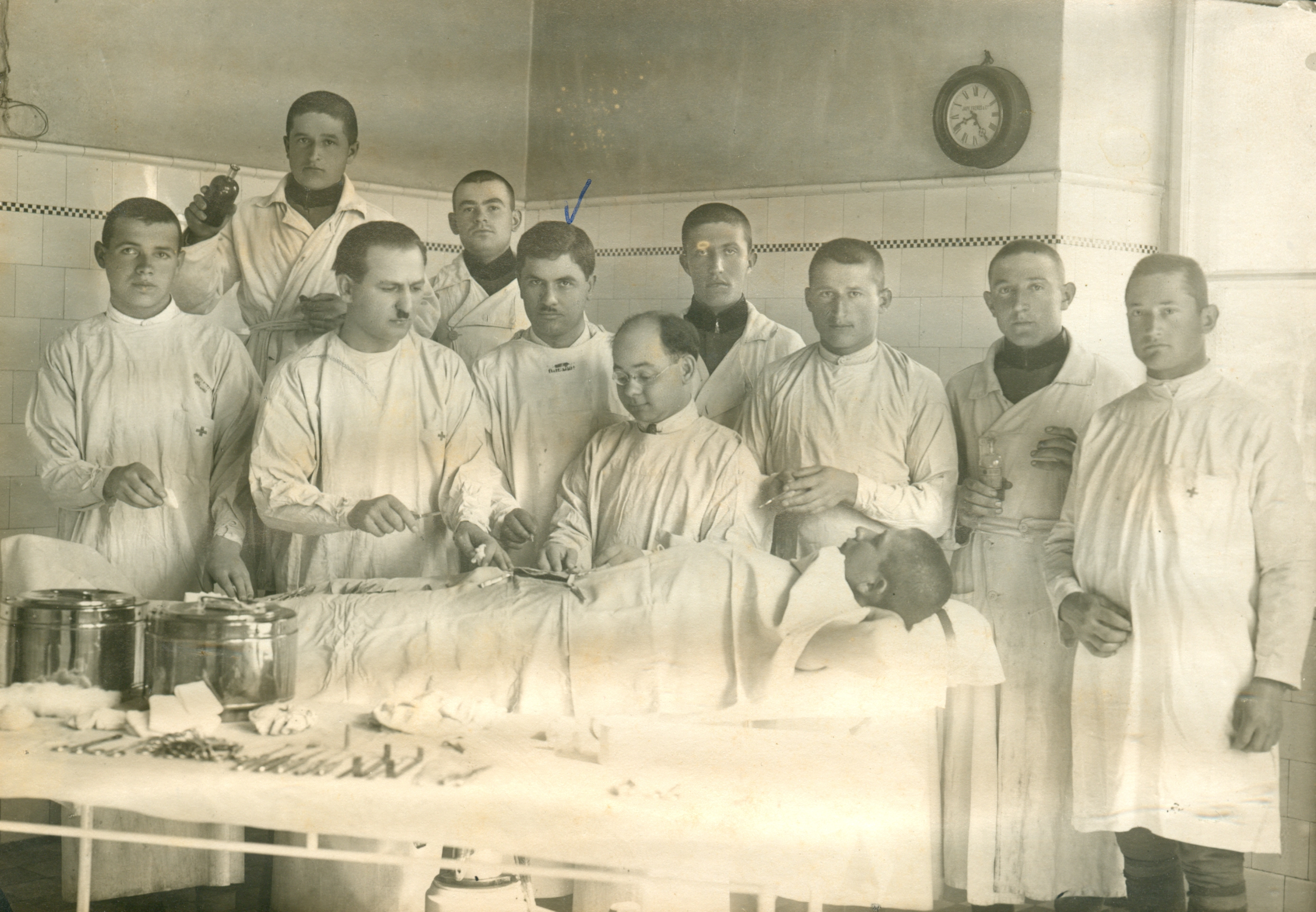 Dr Miodrag Kostic surgeon doctor with colleagues probably in the 1930s Srpski (latinica): Dr Miodrag Kostić sa kolegama, najverovatnije krajem tridesetih godina 20. veka